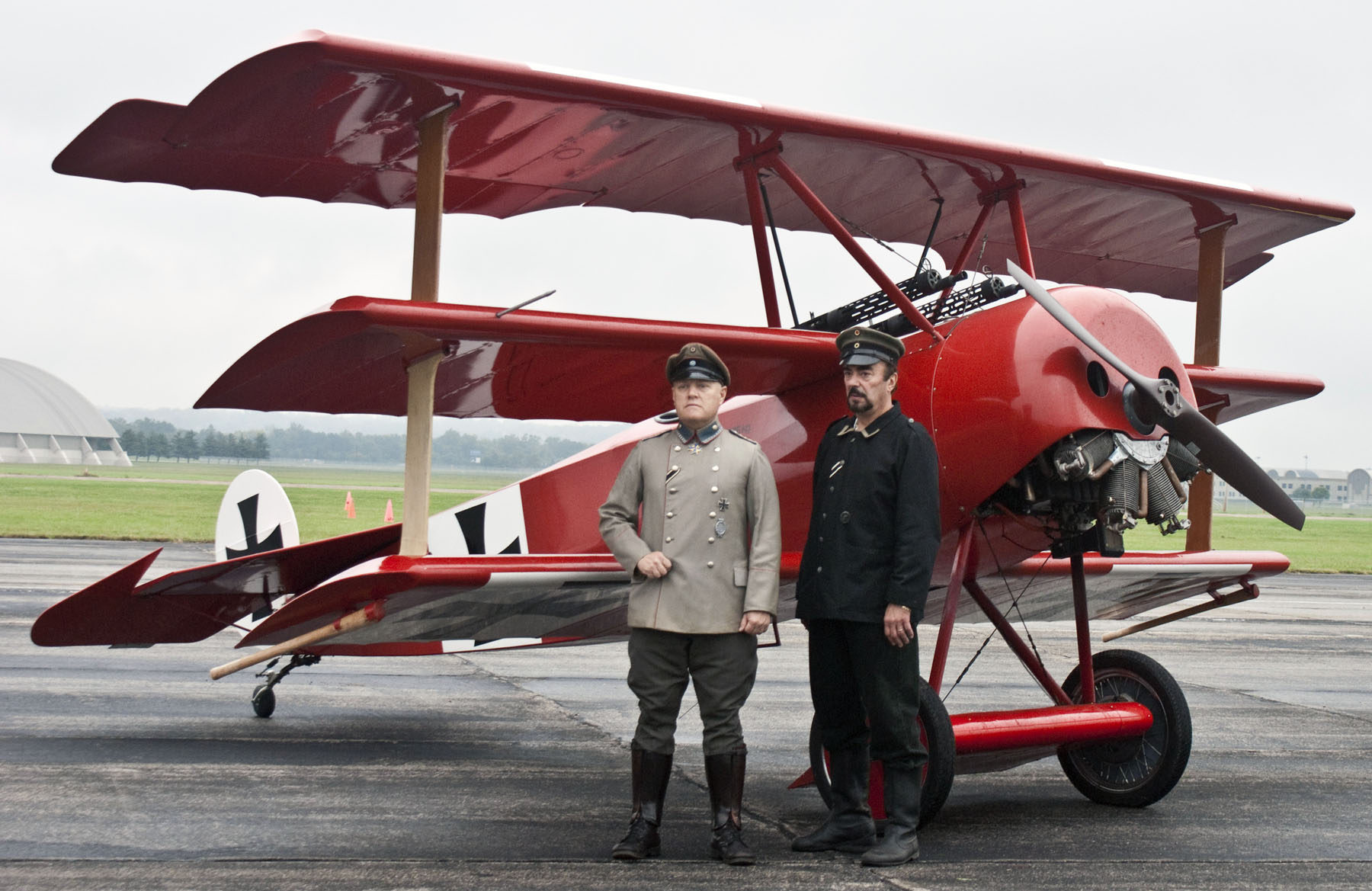 2009 World War I Dawn Patrol Rendezvous DAYTON, Ohio -- Reenactors stand in front of a Fokker Dr. I during the World War I Dawn Patrol Rendezvous at the National Museum of the U.S. Air Force. (U.S. Air Force photo)